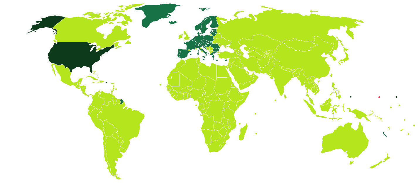 Visa policy of Micronesia F.S. Micronesia Visa-free (1 year) Visa-free (90 days) Visa-free (30 days)